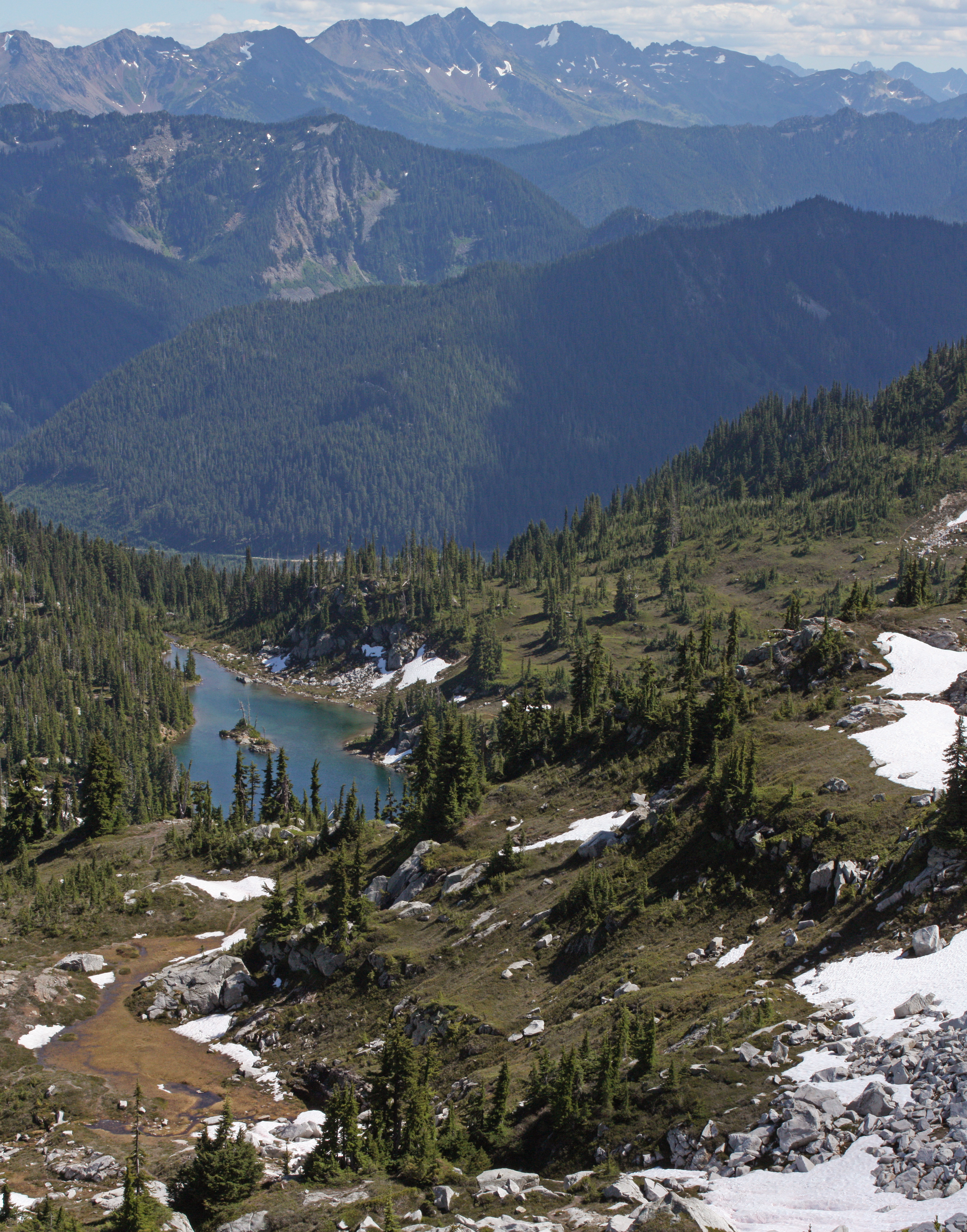 Minotaur Lake (5550 feet, 1692 m); Chiwaukum Mountains (8081 feet, 2463 m, central skyline, behind); stitched panorama from other versions This image was created with Hugin.